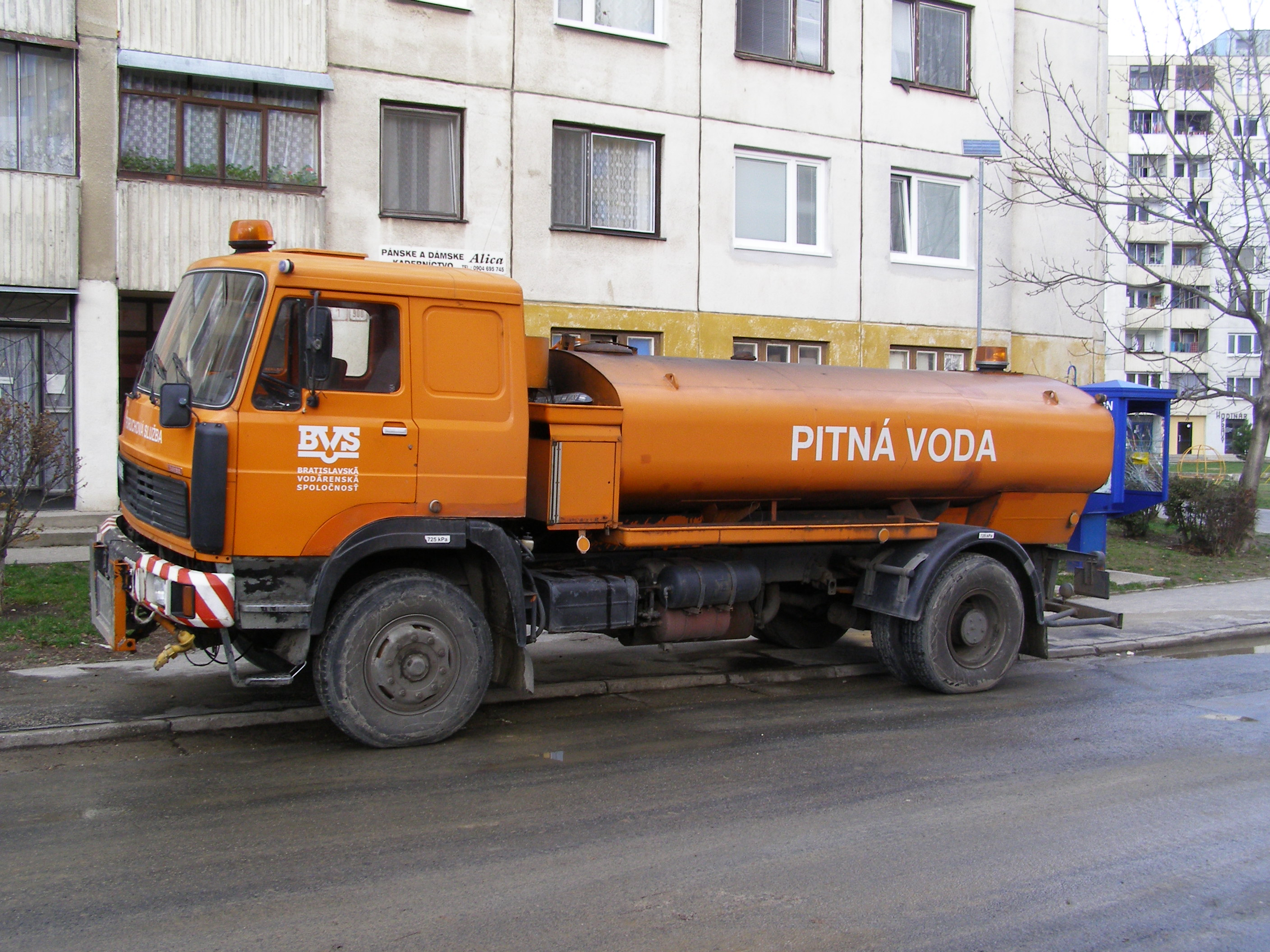 LIAZ 110.850 (+ tank Karosa SA-8) - "Drinking Water" Car, Fedinova street, Bratislava, Slovakia